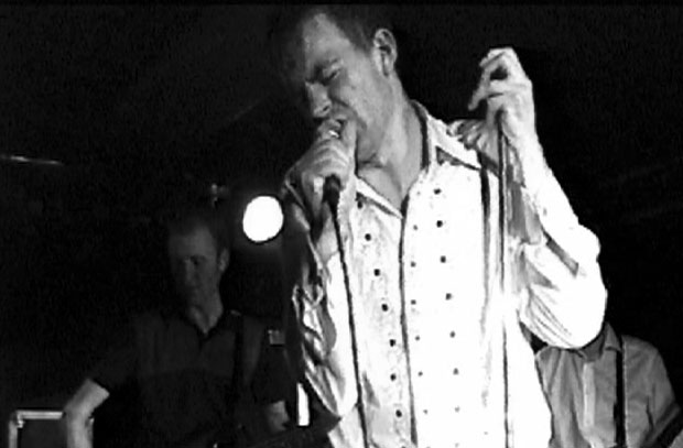 And Also The Trees live in Dortmund, Germany in 1998. In front: Simon Huw Jones, and in the background: Steven Burrows and the additional guitarist and keyboarder for the live gigs in 1998, Dale Hodgkinson, whose face is covered by the arm of Jones.